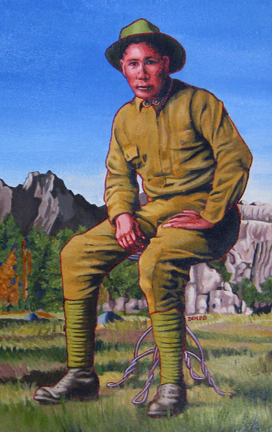 detail of portrait of Moses Stranger Horse (1890-1941), a Brulé Lakota painter